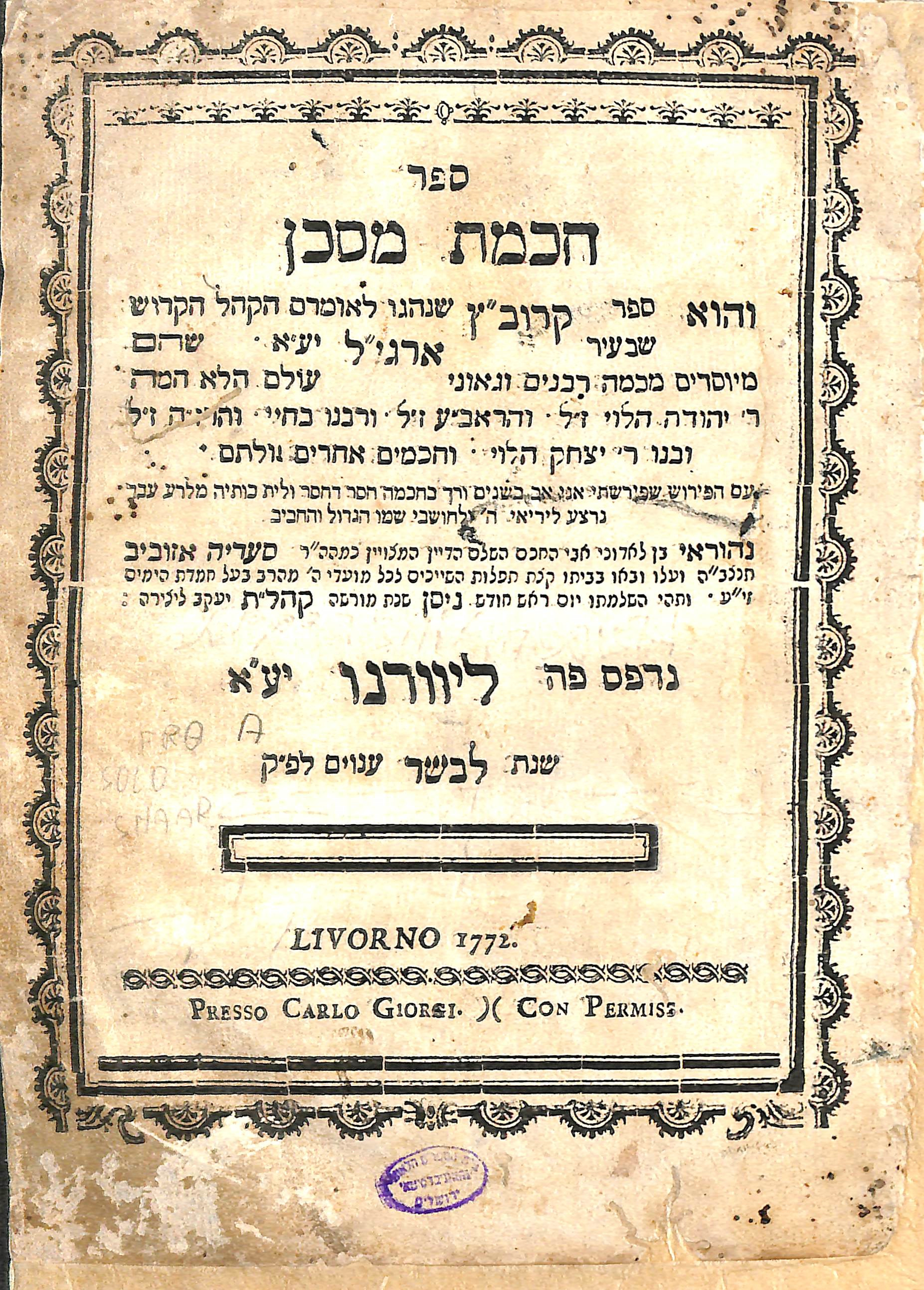 קרובץ חכמת מסכן